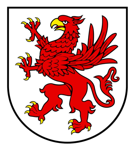 Coat of arms of the West Pomeranian Voivodship